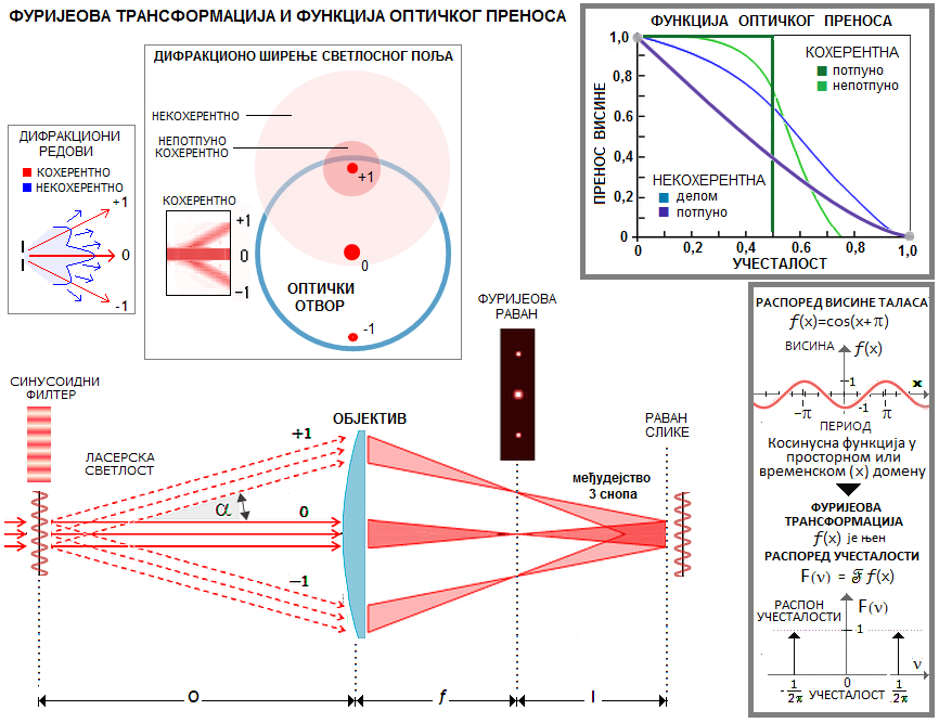 ФОП И ФУРИЈЕОВА ТРАНСФОРМАЦИЈА